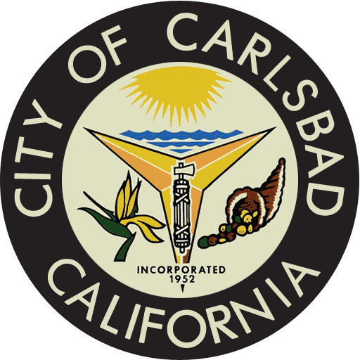 Official Seal of the City of Carlsbad, CA